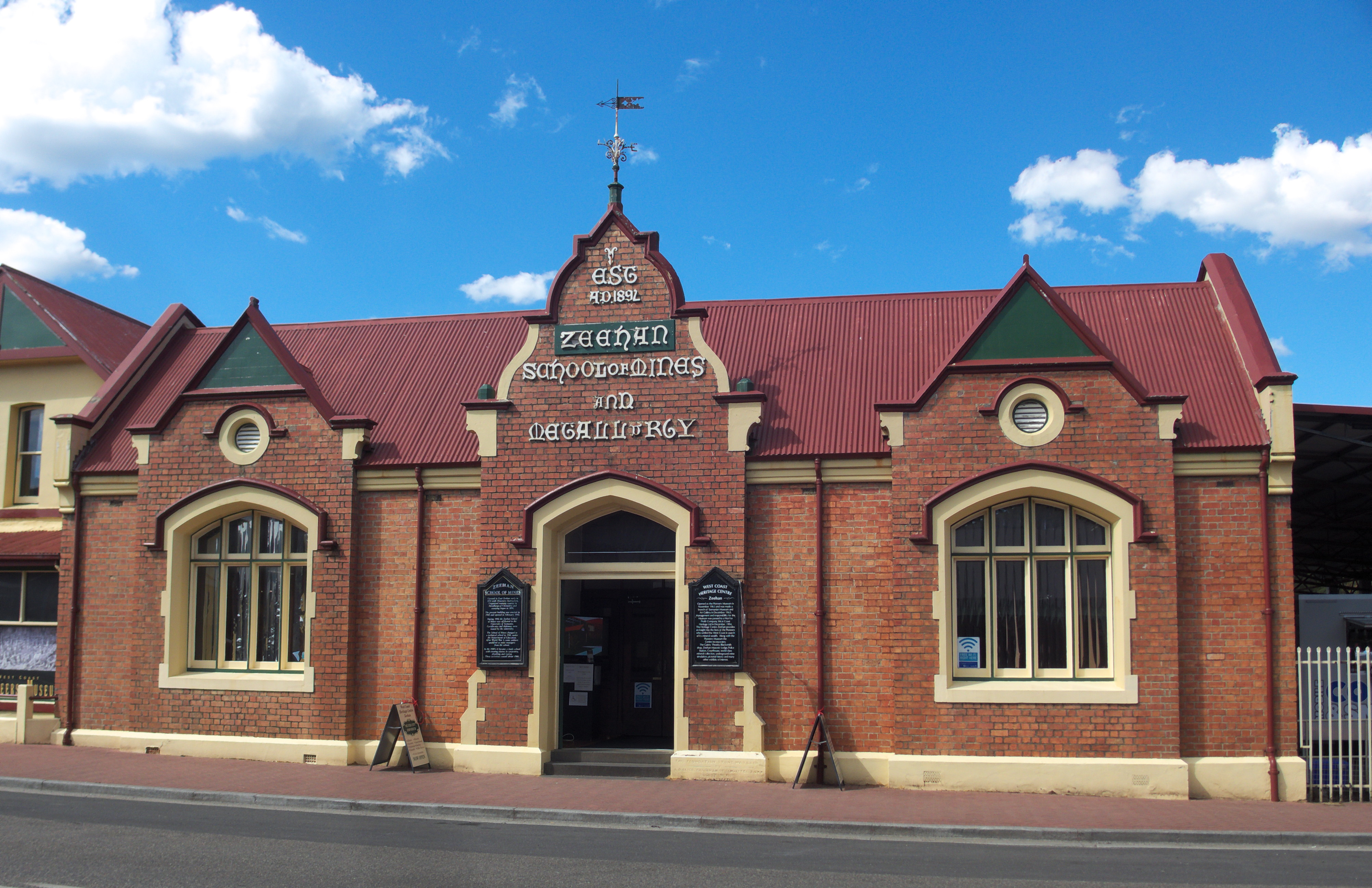 Former Zeehan School of Mines building, which was opened in 1903 [1] and is now part of the West Coast Heritage Centre.